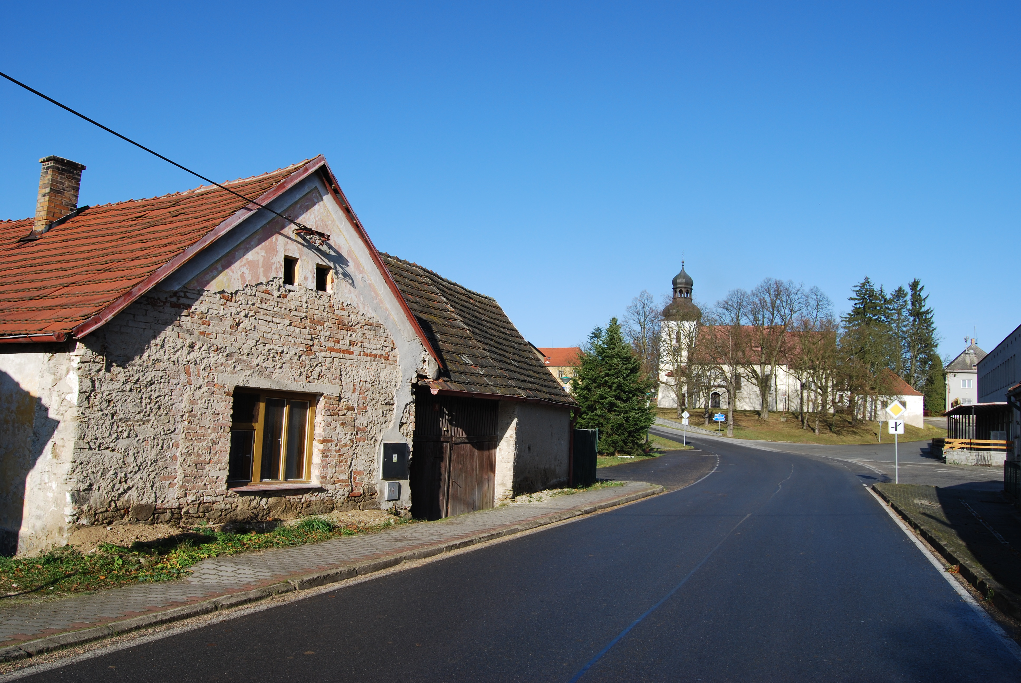 Chrášťany village in České Budějovice District, Czech Republic.